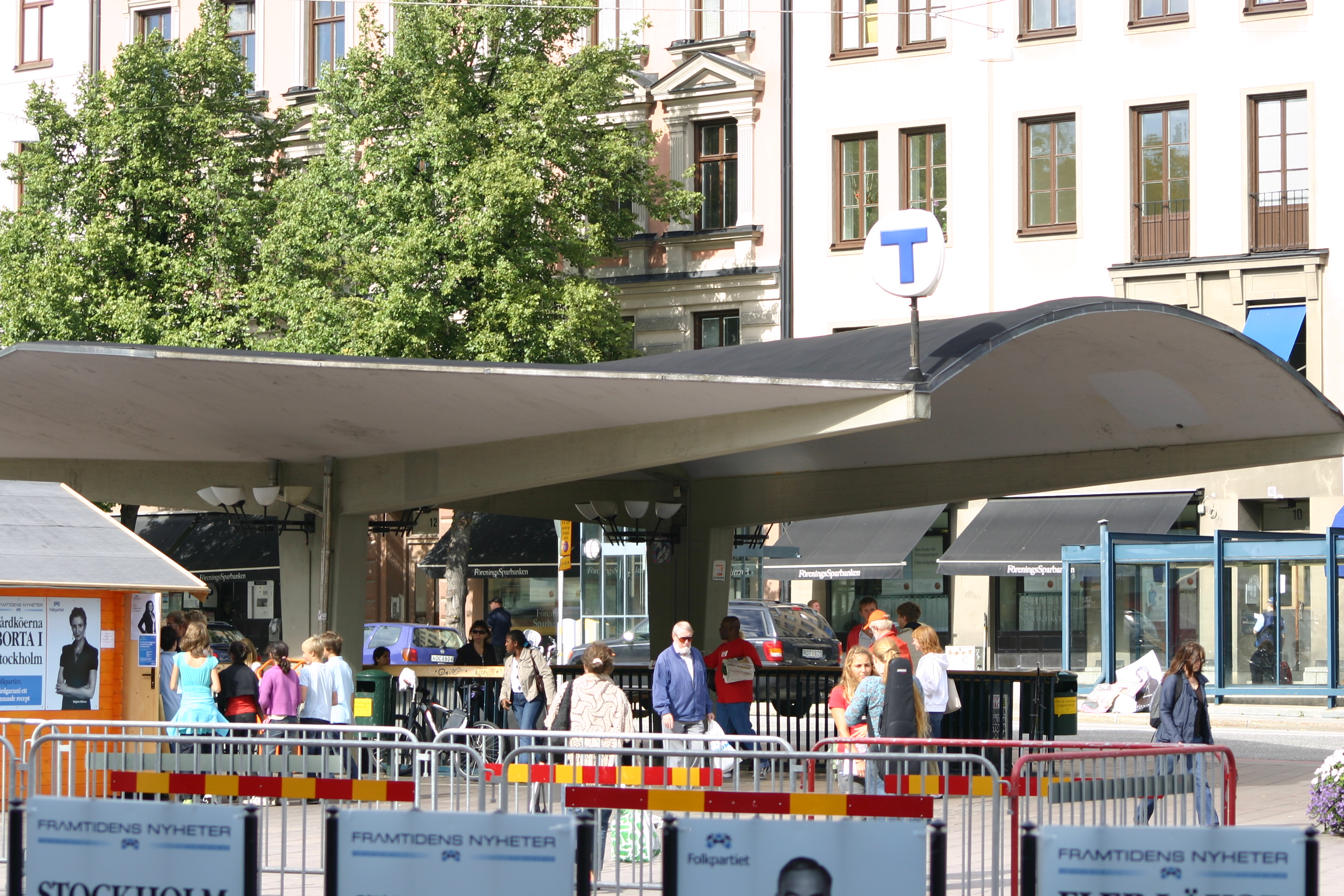 Odenplan in Stockholm, Sweden. Subway entrance.